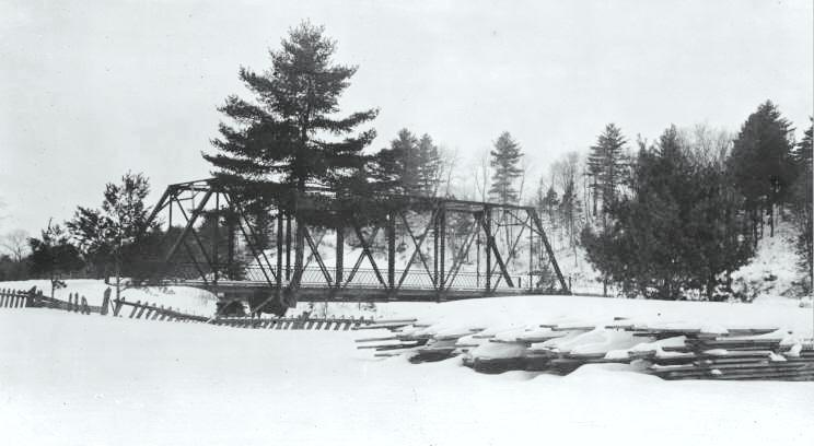 Photograph, Pont du Rapide, Mascouche, QC, about 1910, Silver salts on paper mounted on card - Gelatin silver process - 7.4 x 13 cm